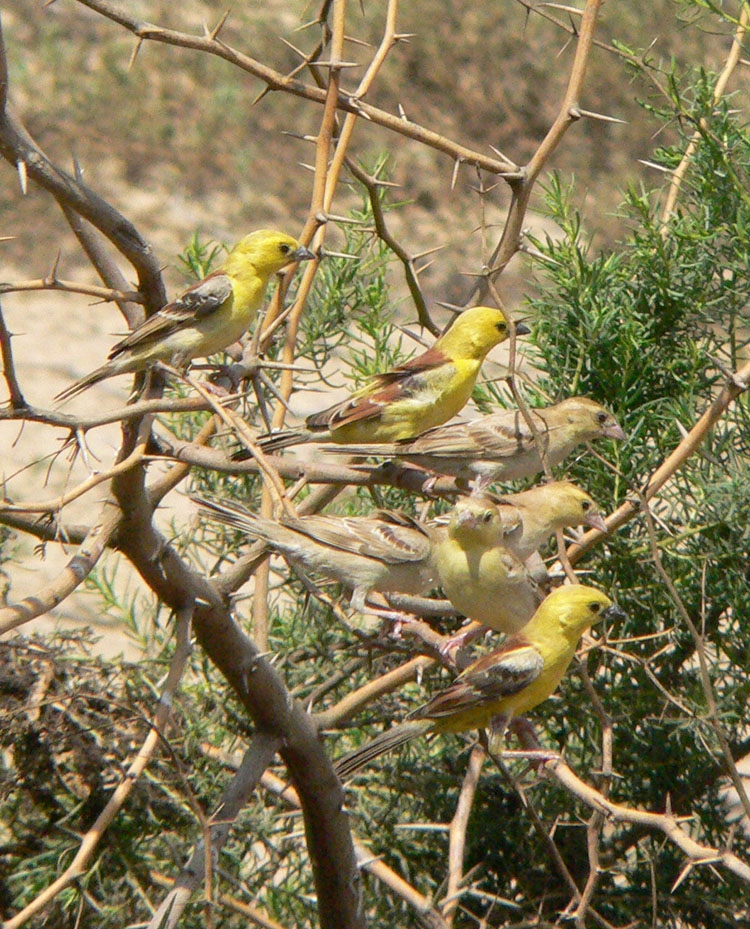 Flock of Sudan Golden Sparrows photographed near Aiterba, Red Sea State, Sudan